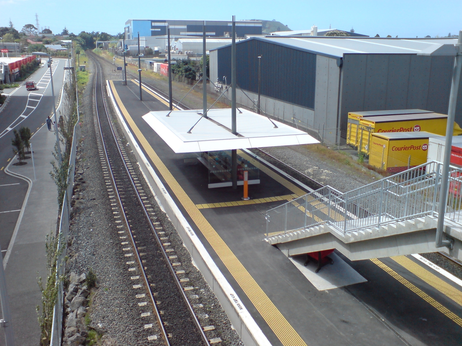 The new railway station at Sylvia Park (suburb and shopping centre) in Auckland City, New Zealand.